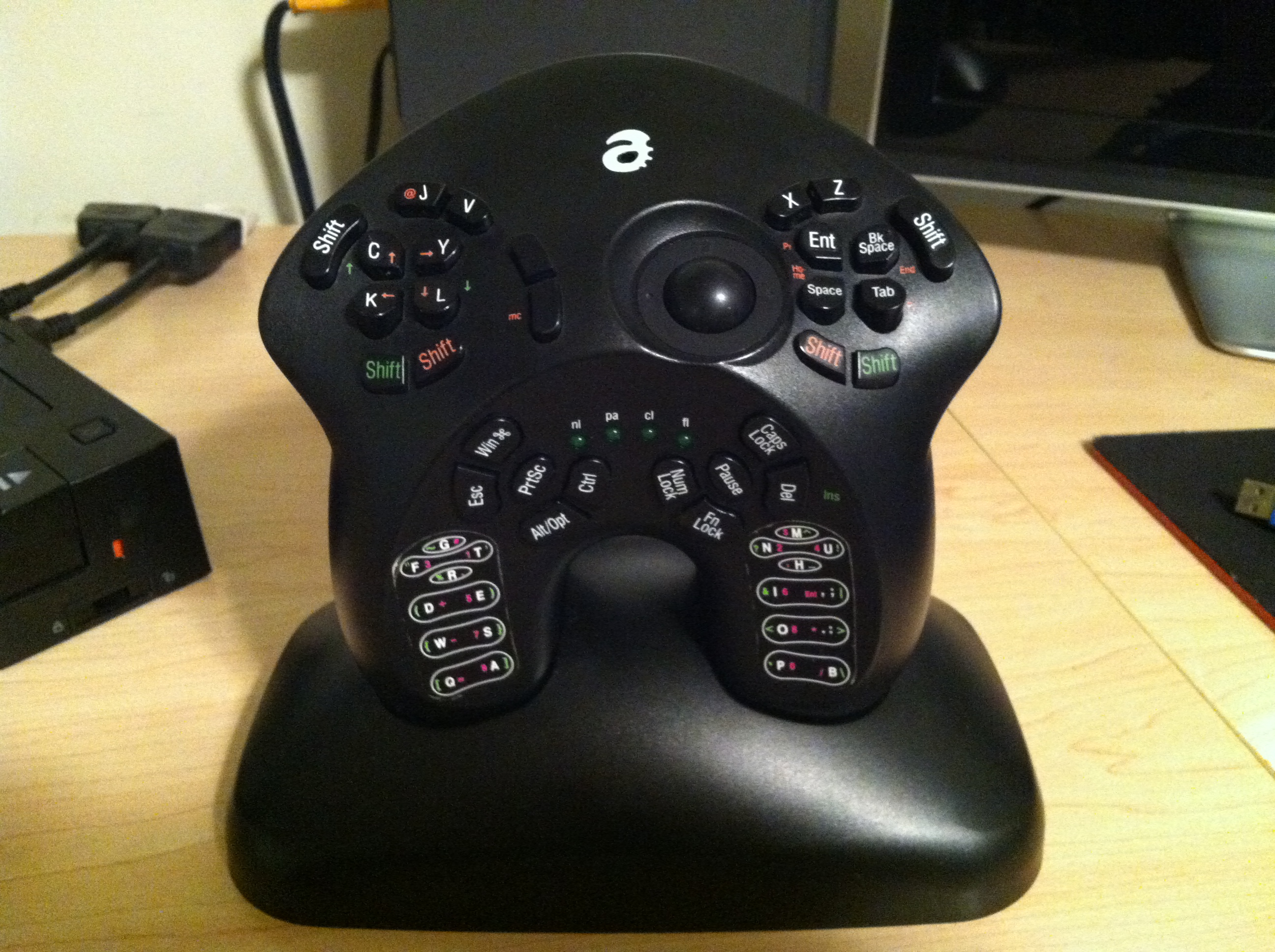 This is a picture of the AlphaGrip handheld keyboard placed on top of a table, a unique keyboard that instead of being placed flat on a table, held like a game controller with accessibility to type all letters.